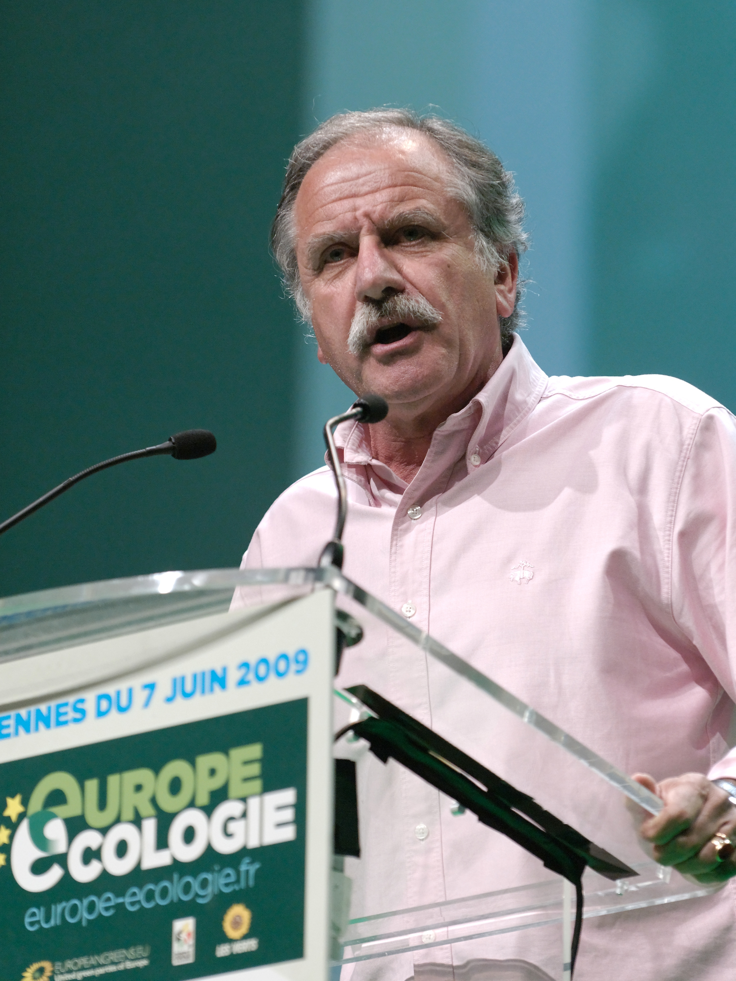 Noël Mamère speaking at the closing rally of Europe Écologie at the Zenith in Paris, on June, 3 2009. Campaign for the 2009 European elections in France.